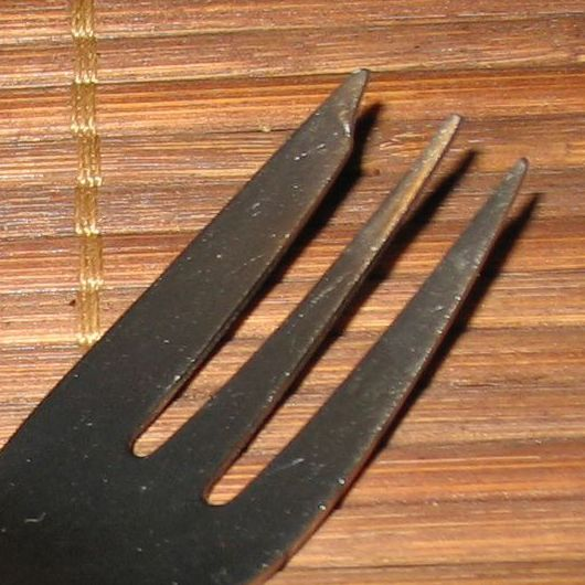 A fork for cake